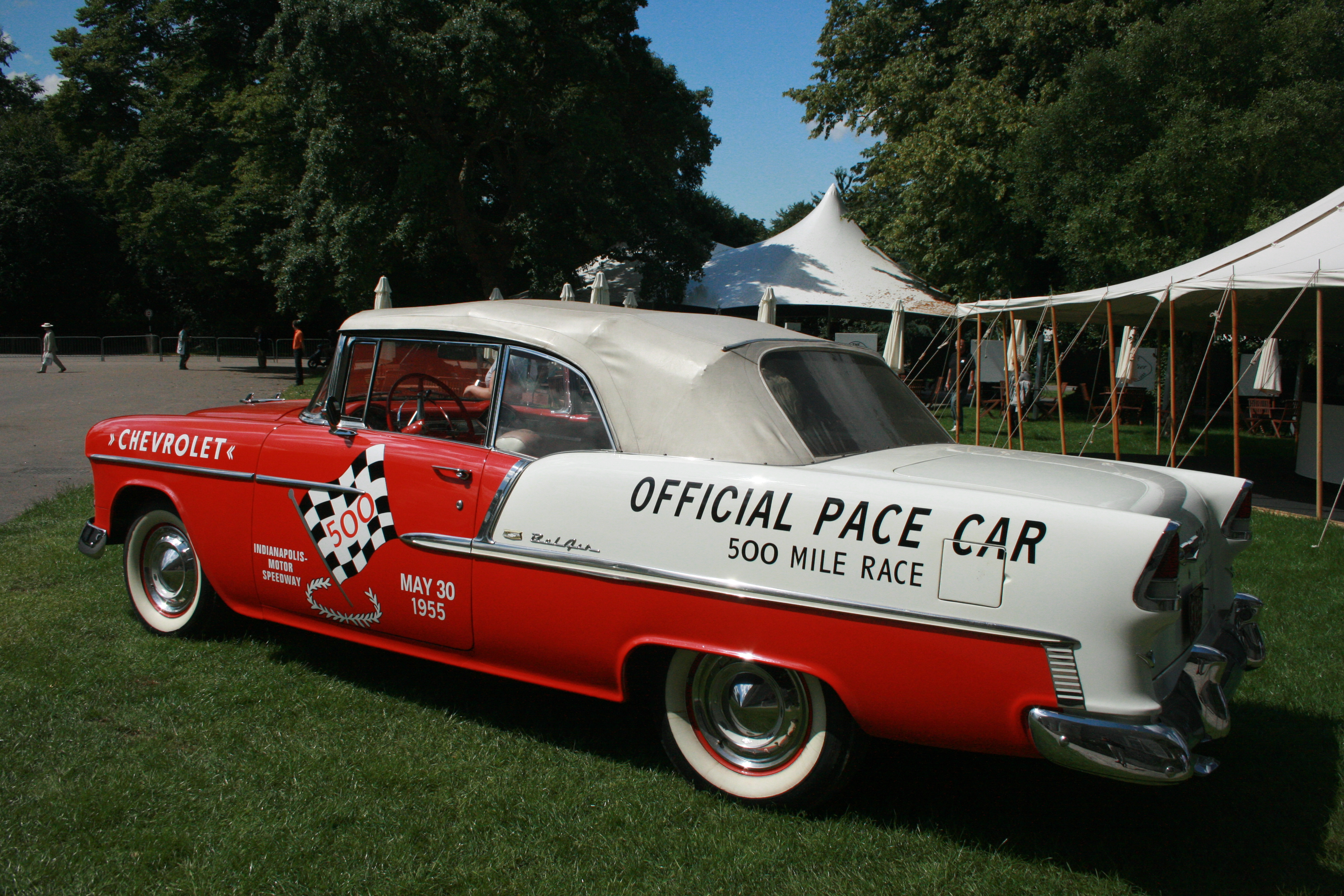 Chevy Pace Car for Indy 500, 1955